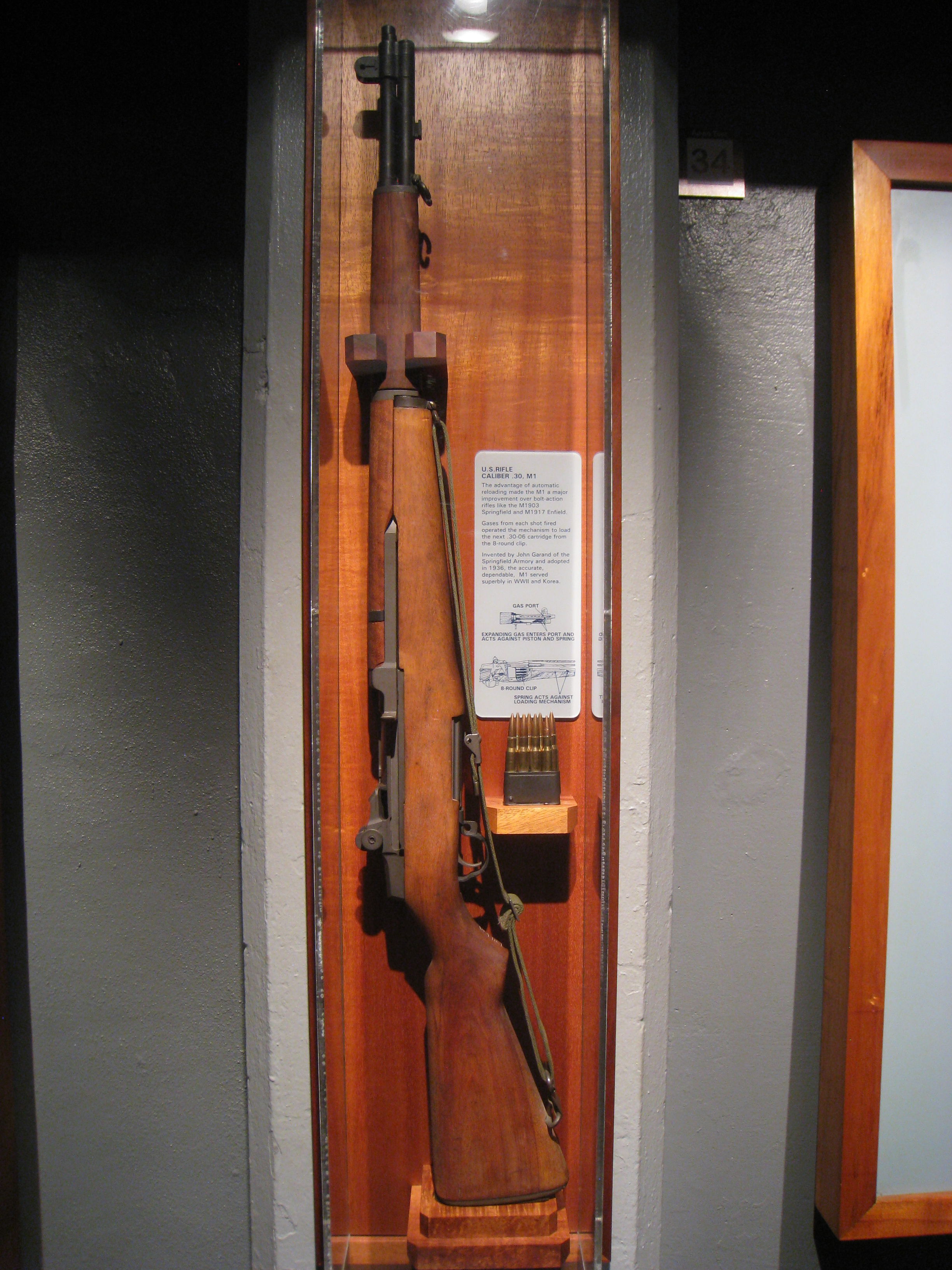 US rifle caliber .30, M1, U.S. Army Museum of Hawaii, Honolulu, Hawaii, USA.